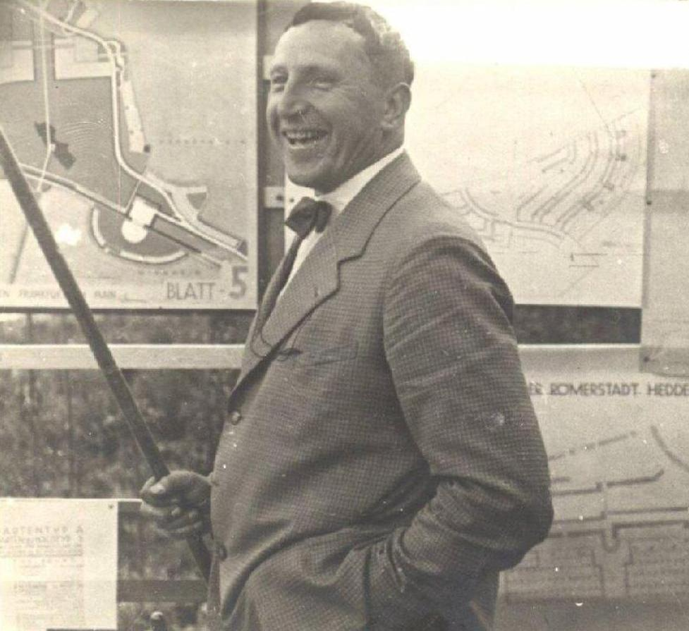 Ernst May 1926, Fotografie von Otto Schwerin (Deutsches Kunstarchiv im Germanischen Nationalmuseum Nürnberg, NL May B-2, 62)